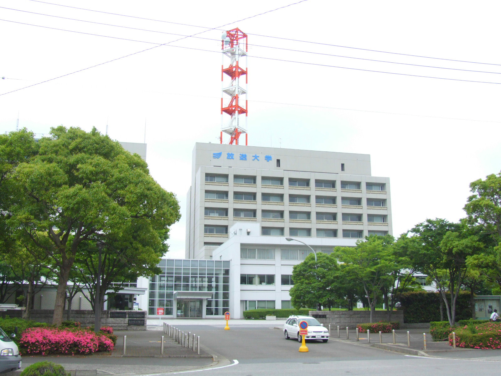 University of the Air. Chiba, Chiba prefecture, Japan.